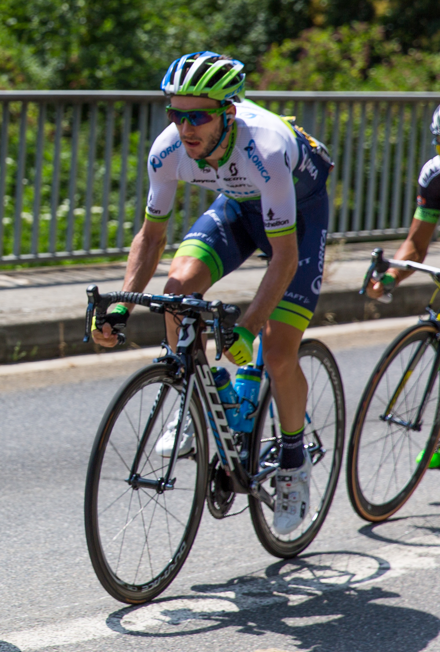 Serge Pauwels (MTN) during stage 13.